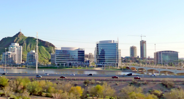 Tempe Skyline as seen from Papago Park. Hayden Ferry development & Tempe Town Lake in foreground, downtown Tempe in background.